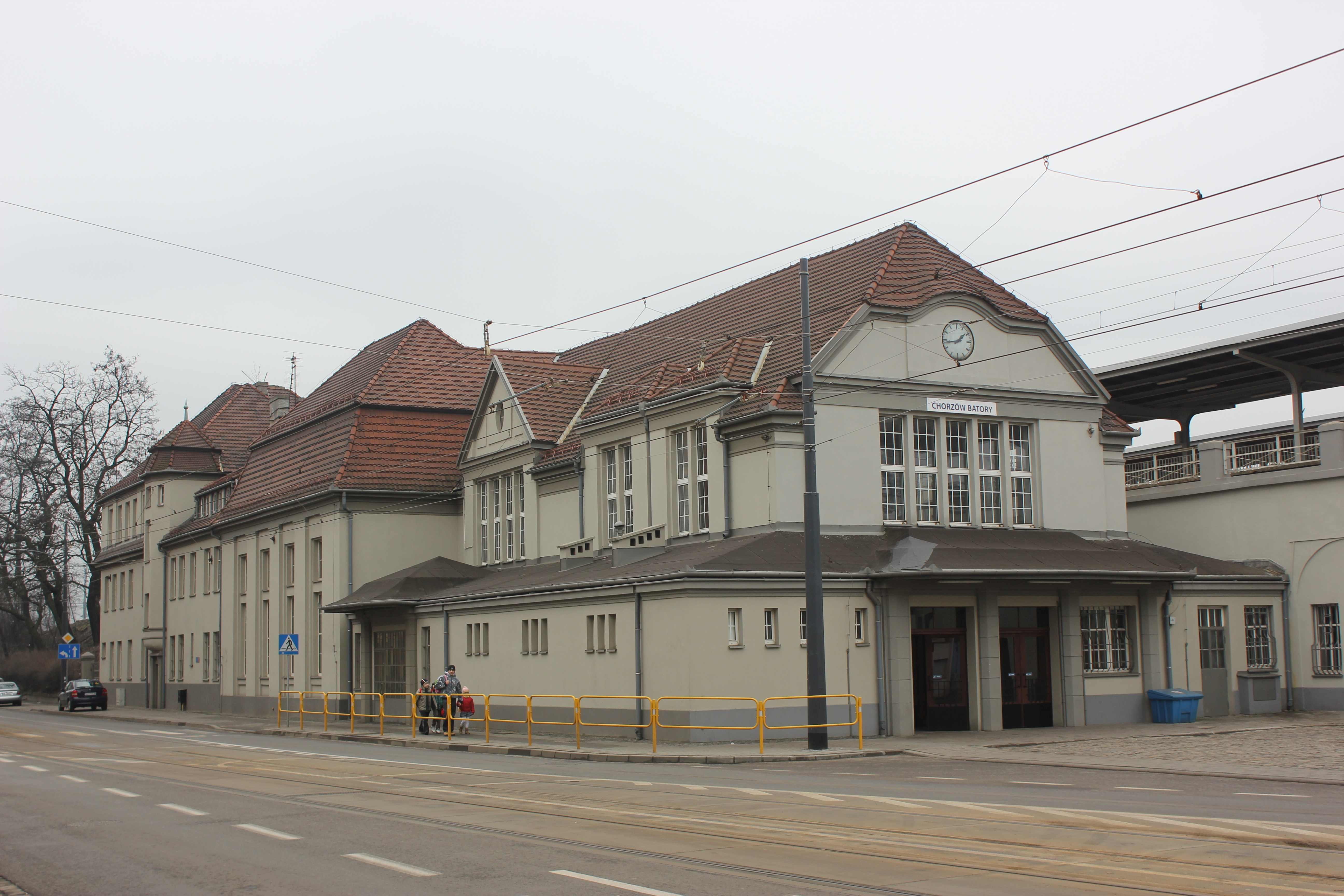 Chorzów - Batory railway station building